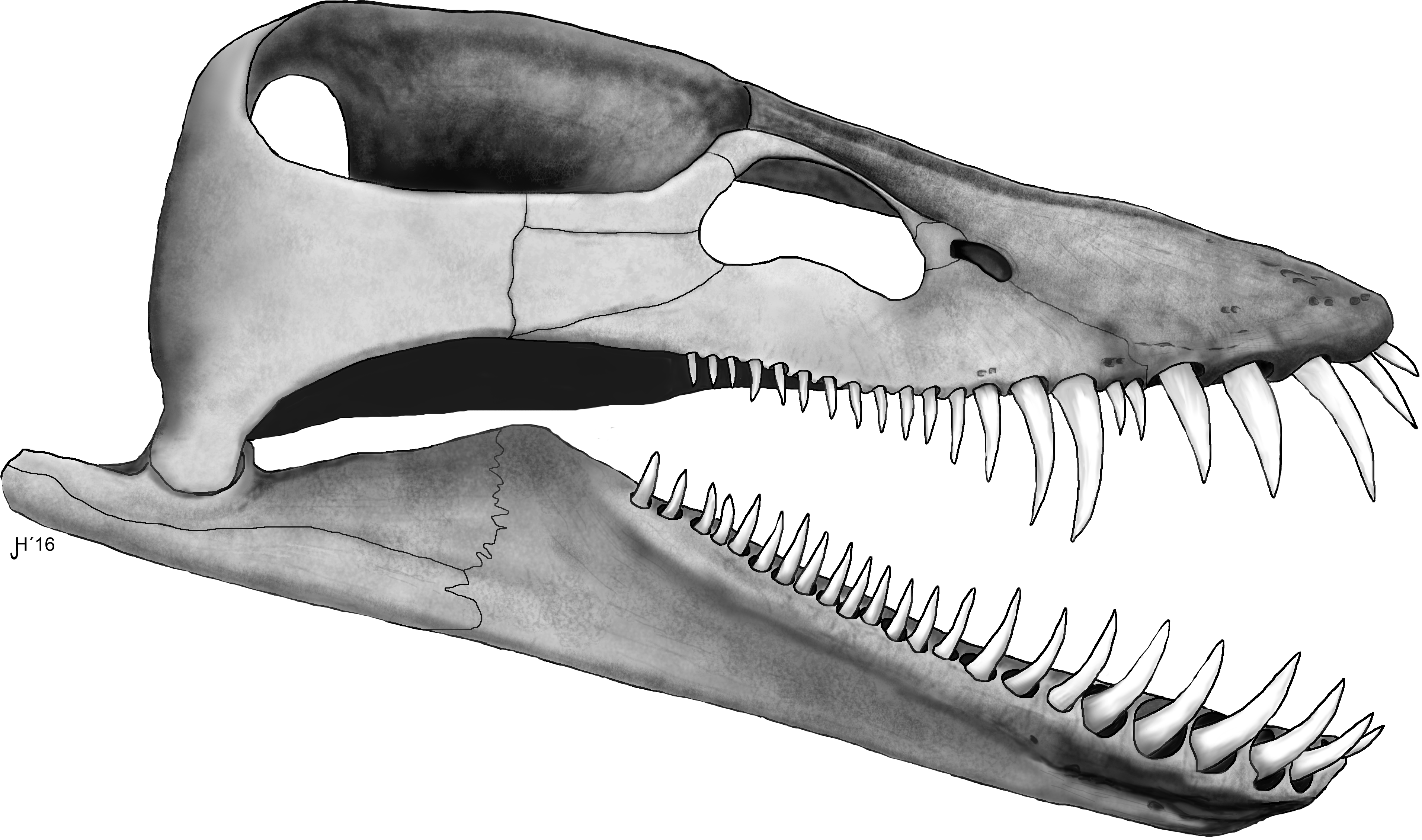 Reconstruction of the skull of Lagenanectes richterae in right lateral view. Only the anterior part of the skull and lower jaw is preserved in the type and only known specimen. The posterior parts are reconstructed based on the related genus Libonectes.